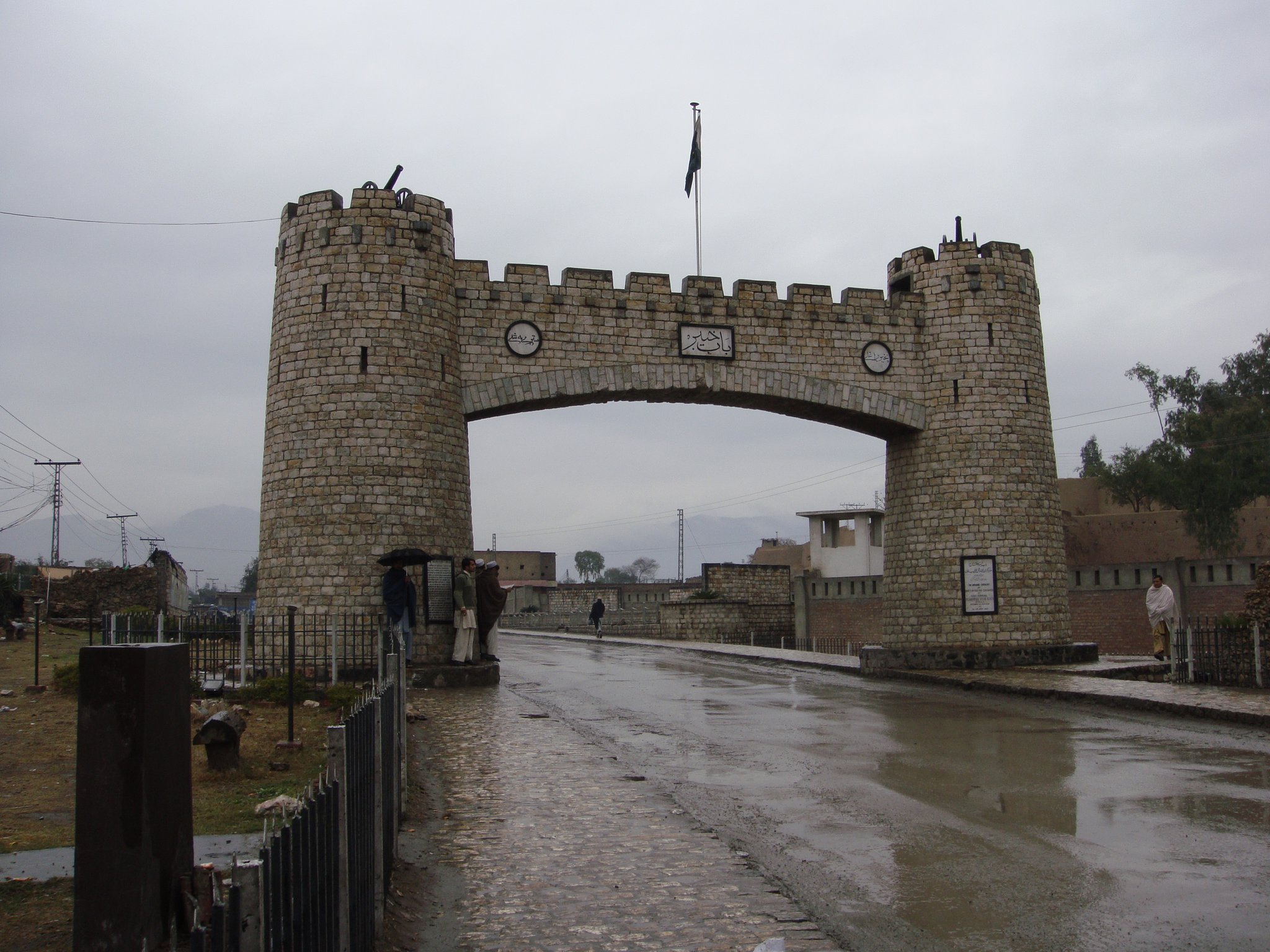 Khyber pass gate on a rainy day.